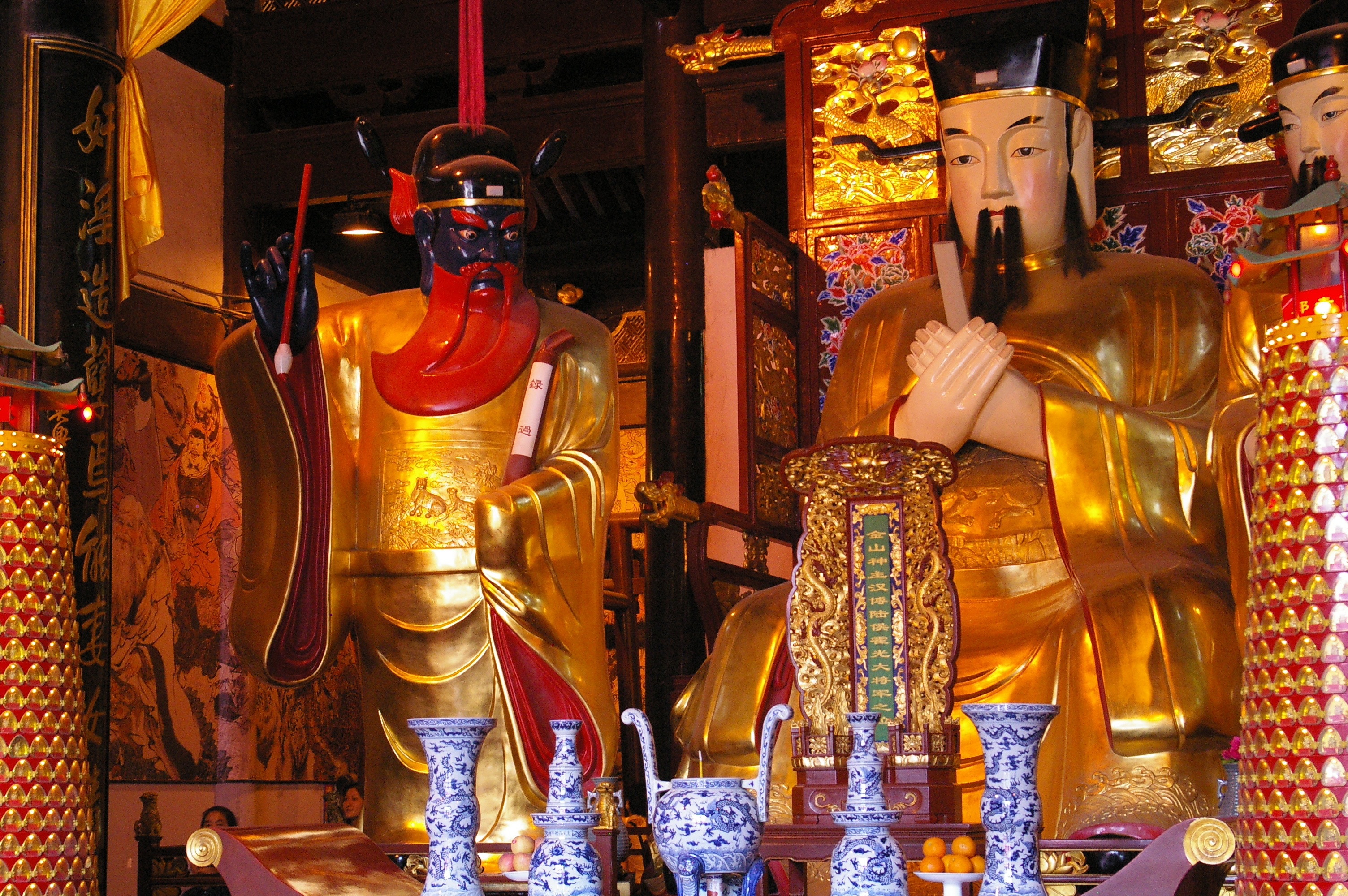 One of the altars of the City God Temple in Shanghai